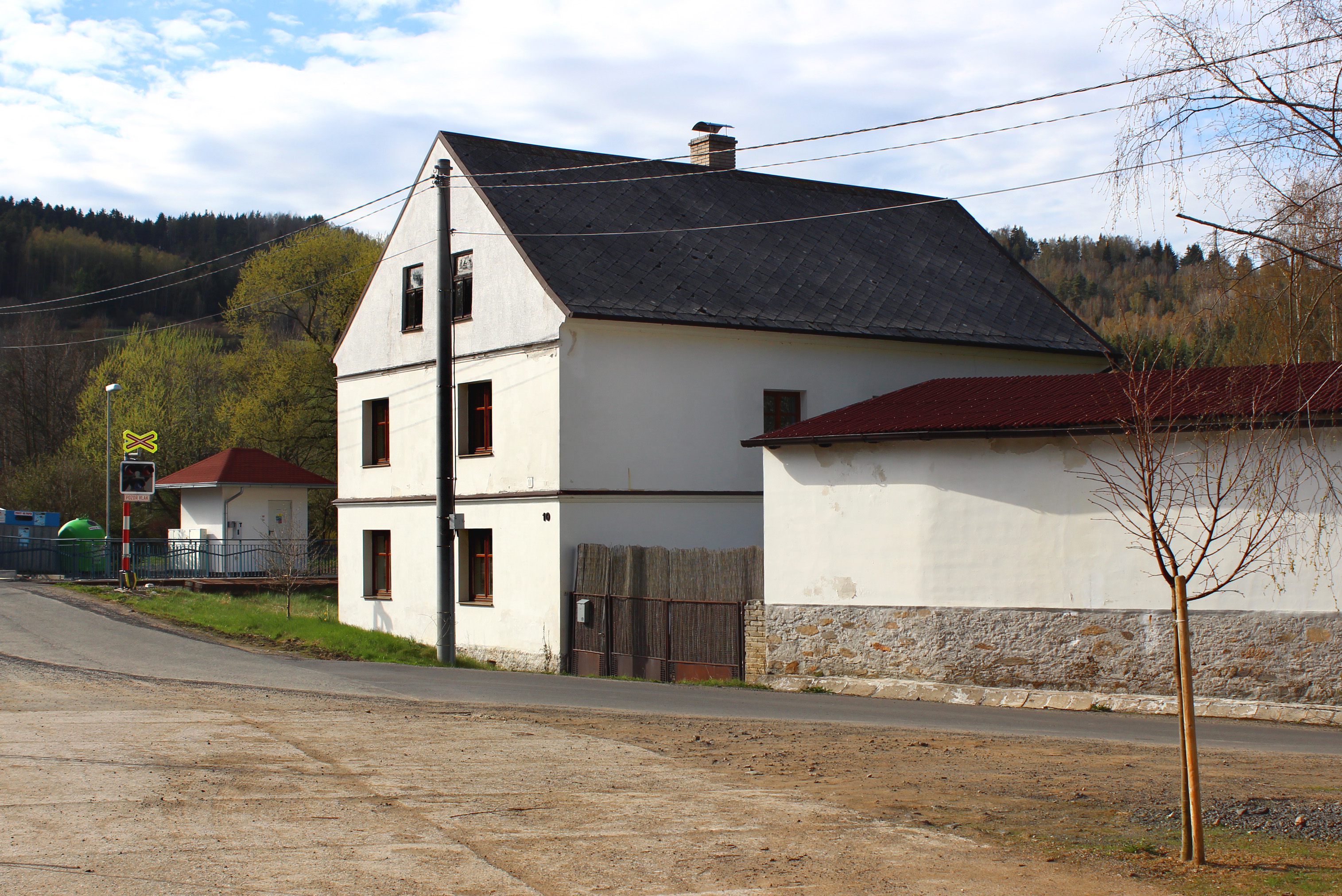 Krásný Jez, part of Bečova nad Teplou, Czech Republic